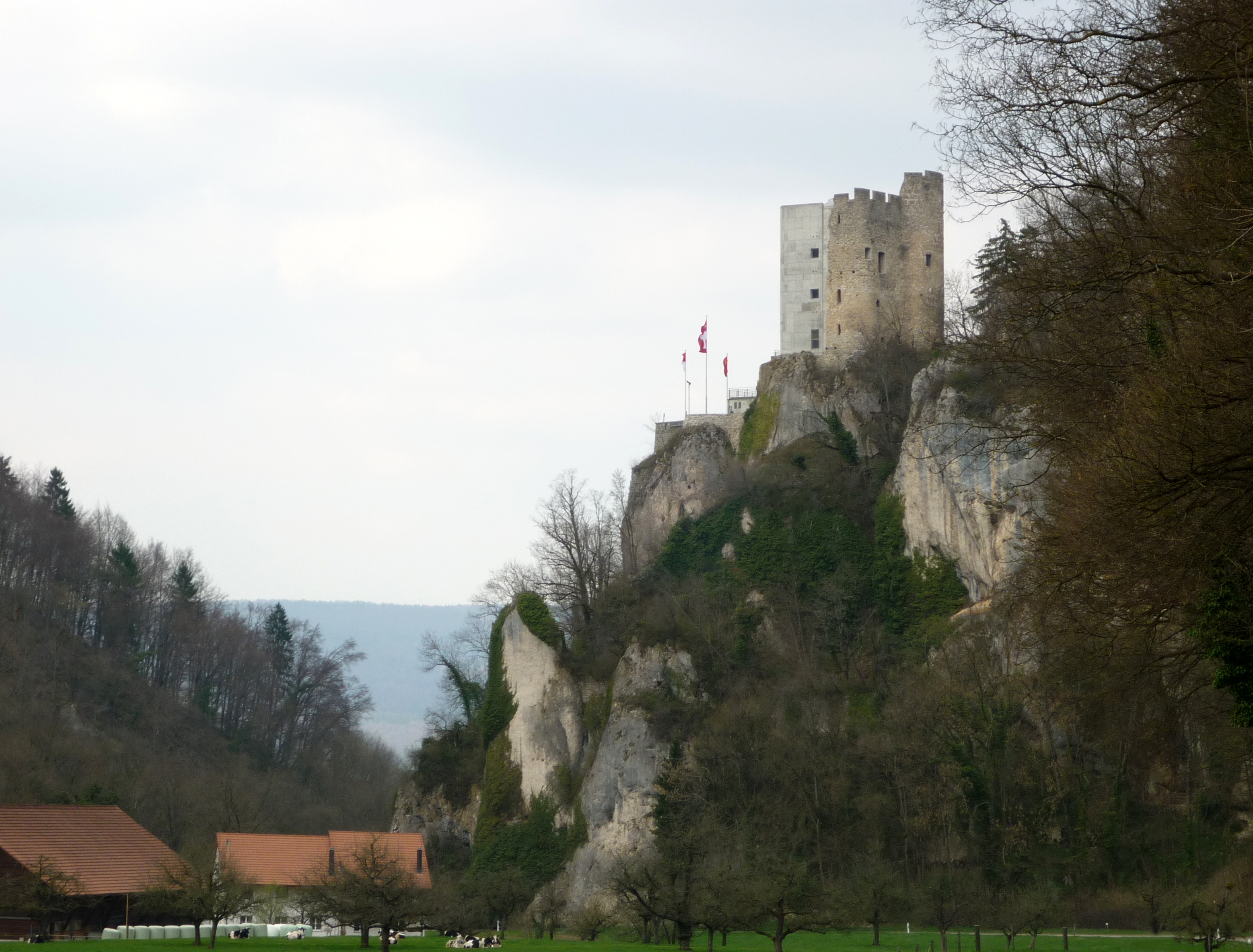 Neu-Thierstein castle, Canton of Solothurn, Switzerland, seen from the Erschwil side. The Passwang road is also visible below.